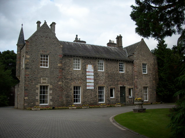 Old Gala House, Galashiels The fine old house was built in 1583 (with later extensions) for the Pringles of Galashiels. Sir James left the house in 1632 because financial difficulties and the house passed to Hugh Scott after marriage to Sir James' daughter, Jean. The Scotts lived in the house until 1876 when they moved to New Gala House (now demolished. The house is now a museum and very much used by the community.